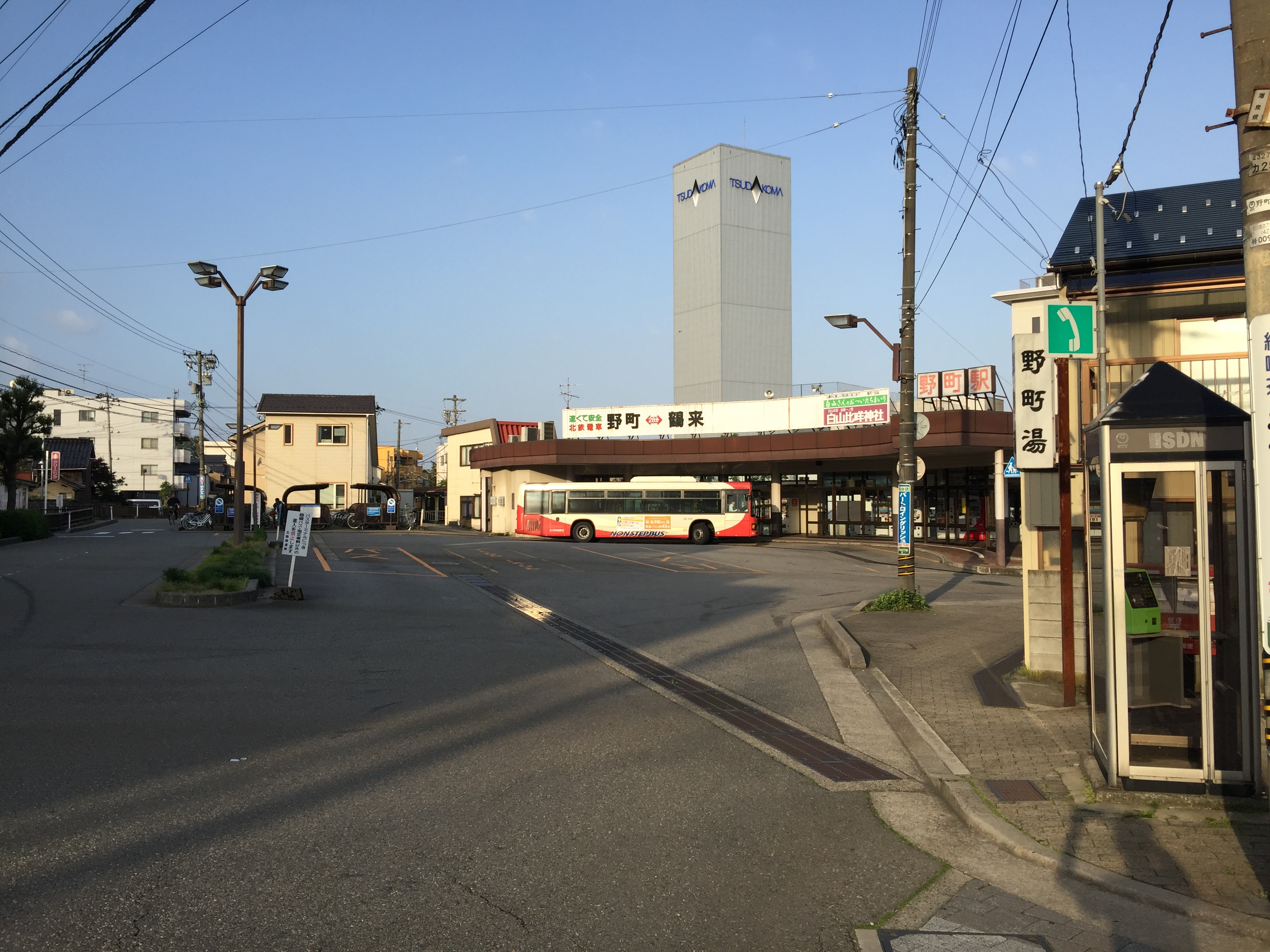 Hokuriku railway Nomachi station. A public bath and a coffee restaurant locate in front of the station